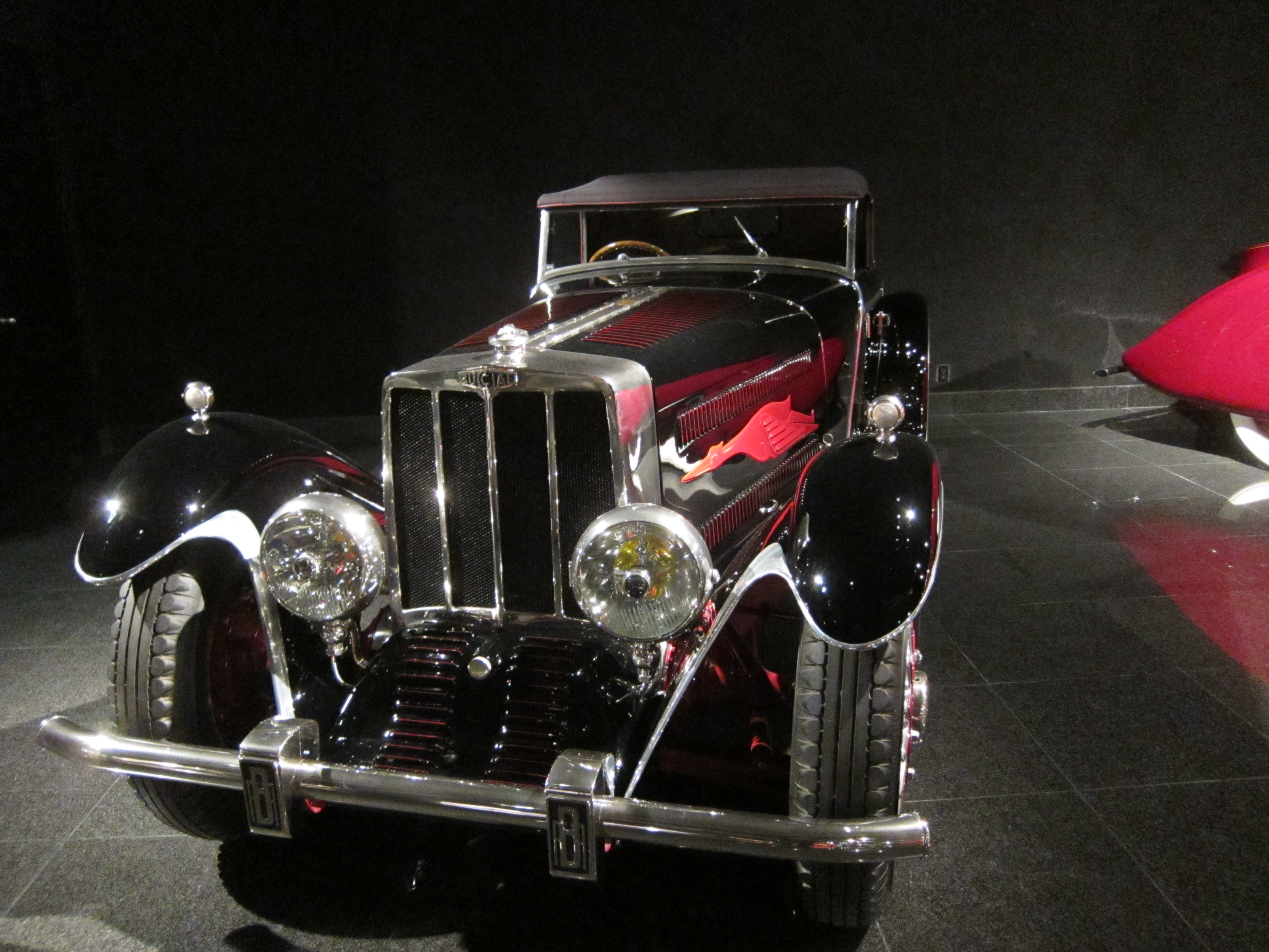 Awesome Behring collection of classic cars. Danville, CA